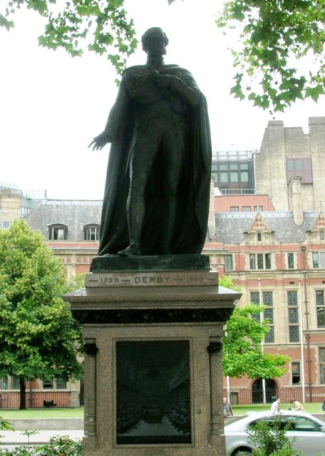 Earl of Derby statue, Parliament Square SW1 Edward George Geoffrey Smith-Stanley (1799-1869), 14th Earl of Derby from 1851 - Politician - Prime Minister 1852, 1858-9, and 1866-8